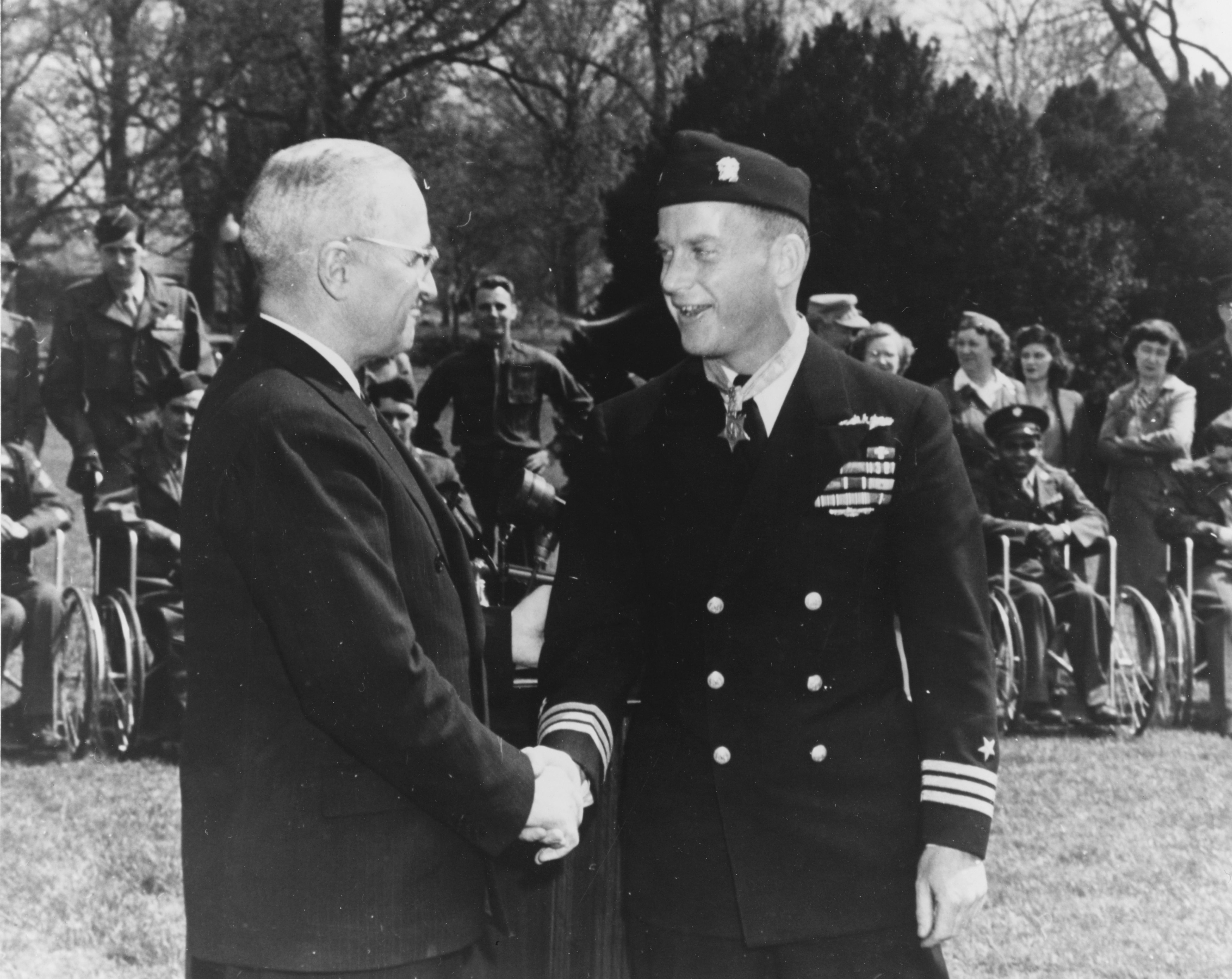 Commander Richard H. O'Kane, U.S. Navy, is congratulated by U.S. President Harry S. Truman, after he had been presented with the Medal of Honor in ceremonies on the White House lawn, Washington, D.C. (USA), 27 March 1946. Commander O'Kane received the award for conspicuous gallantry and intrepidity as Commanding Officer of USS Tang (SS-306) in combat on 23-24 October 1944.